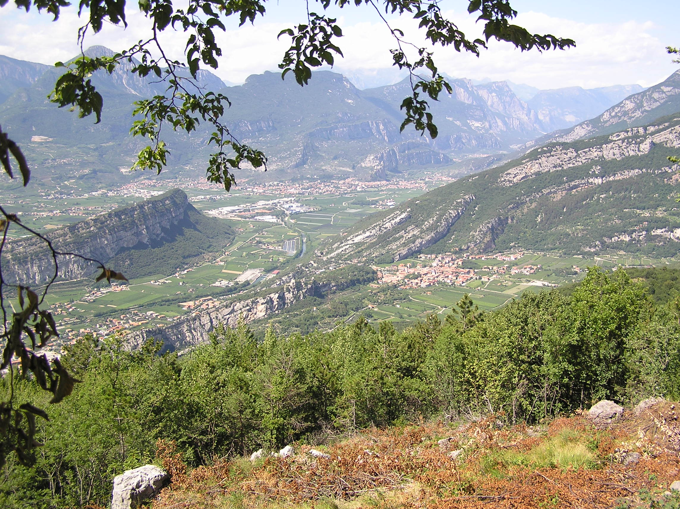 Arco, near Lake Garda, Italy. View from the road to Monte Altissimo di Nago.